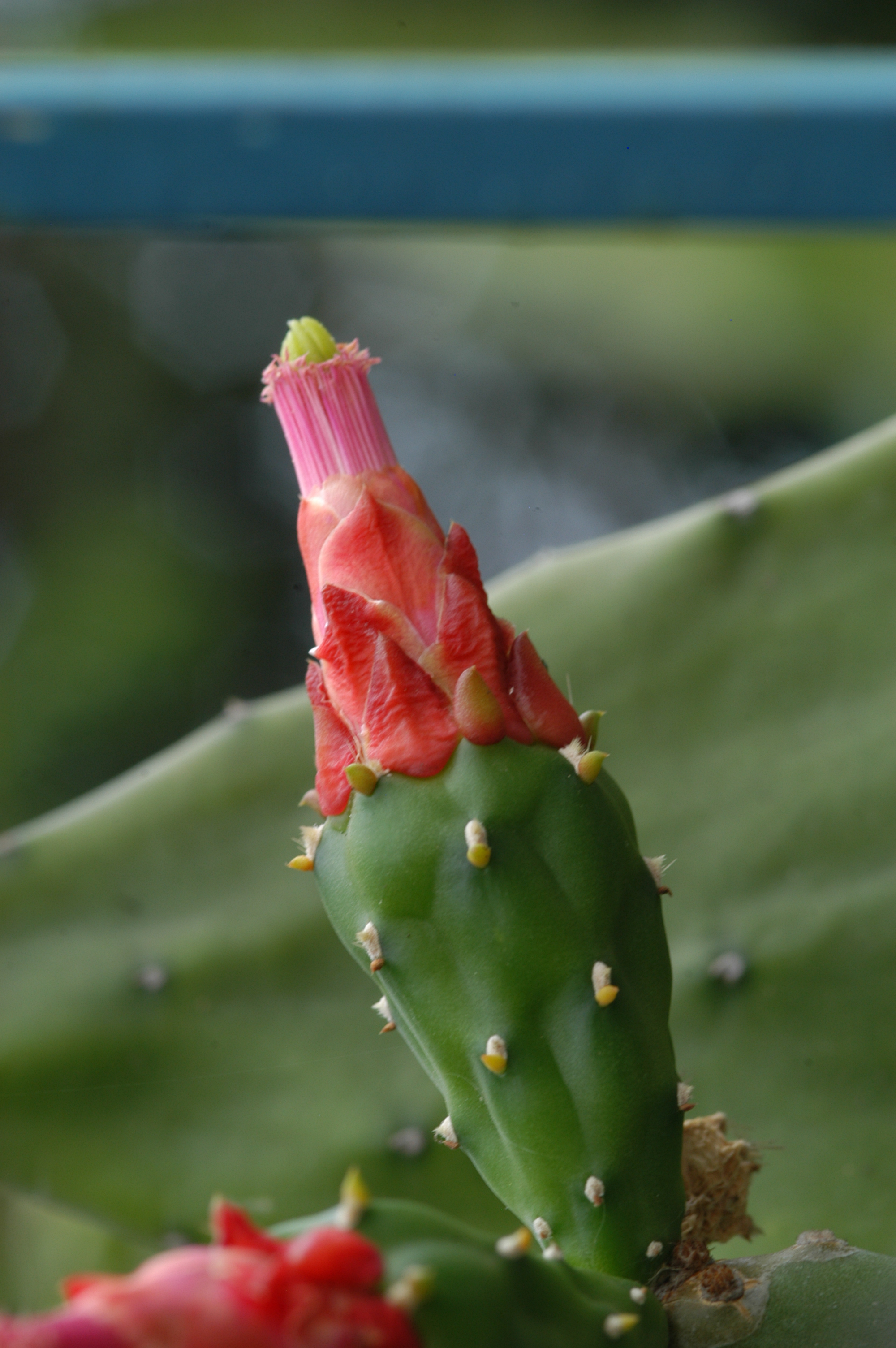 Opuntia cochinellifera